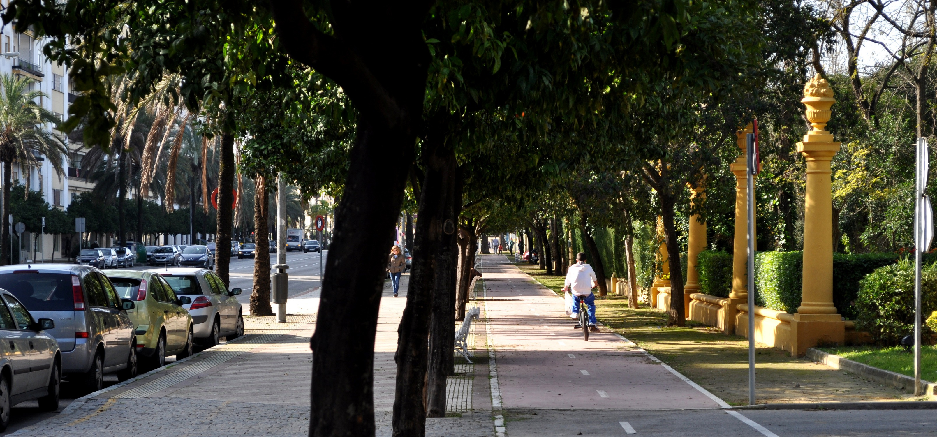 Alcalde Alvaro Domecq St., Jerez de la Frontera